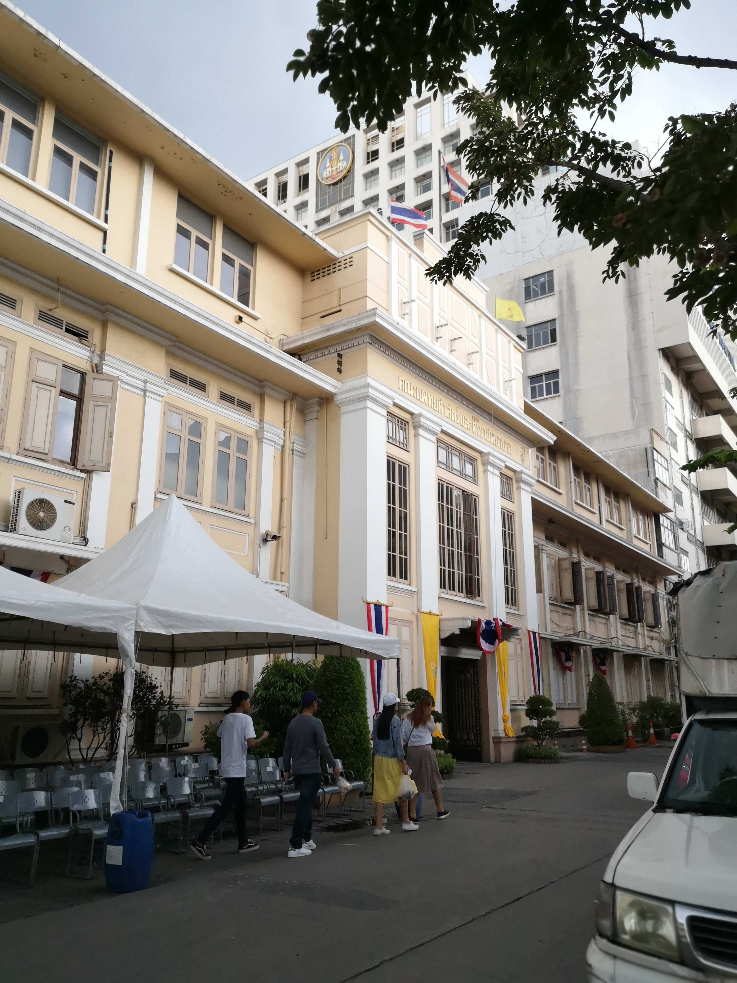 Siriraj Hospital